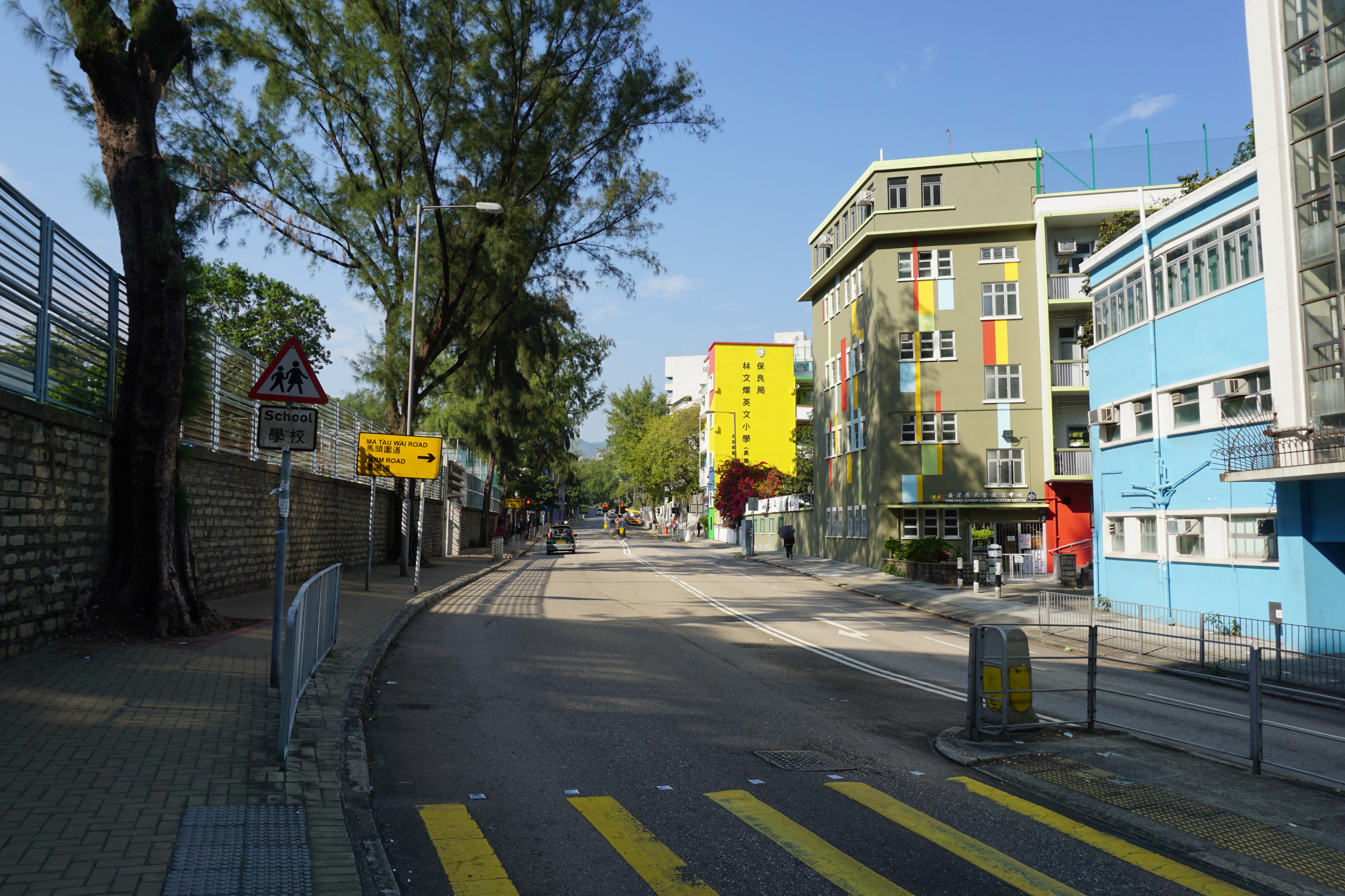 Tin Kwong Road in Ma Tau Wai, Hong Kong.